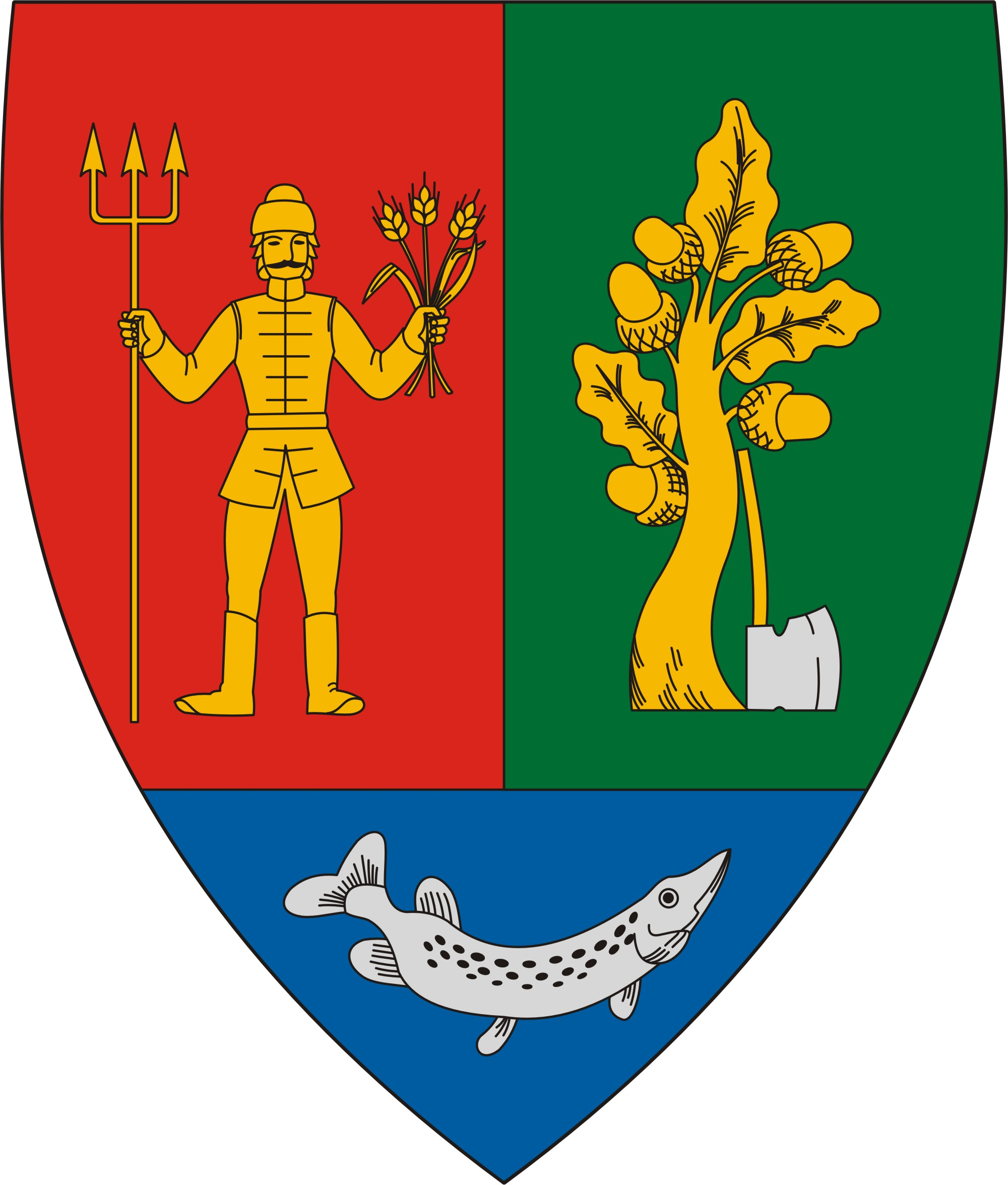 Coat of arms of Nyírbogdány, Hungary